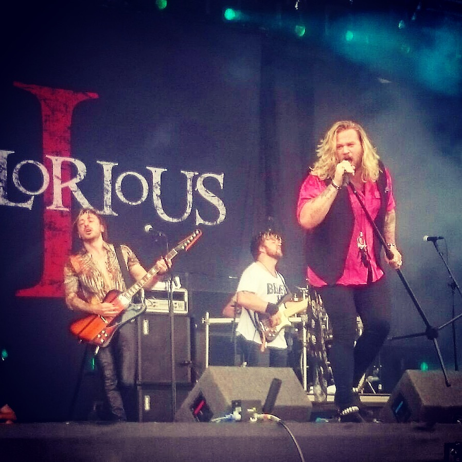 Inglorious live at Ramblin' Man Fare, Maidstone 2016